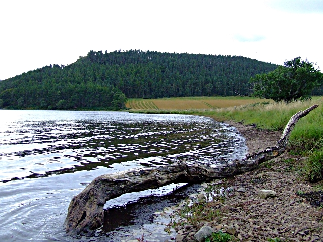 Looking towards Dun Creich. On the Creich Farmland.